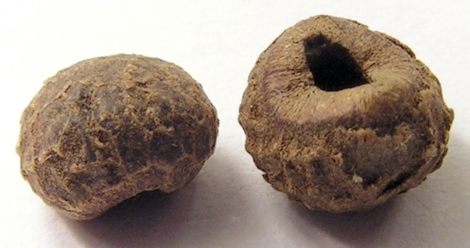 The seeds of Thunbergia alata. Diameter of the seed is appr. 4 mm.